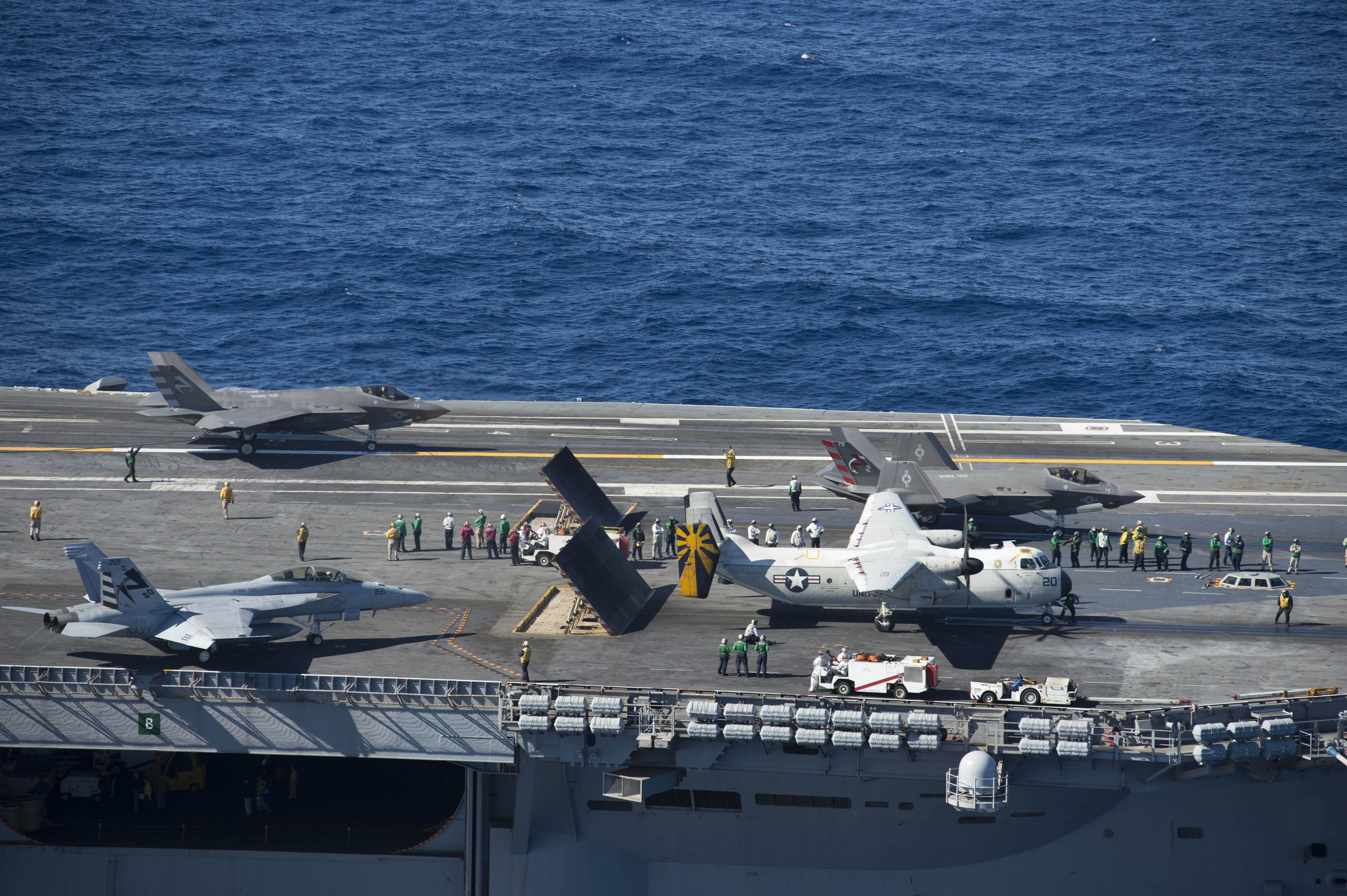 Two U.S. Navy Lockheed Martin F-35C Lightning II and a Boeing F/A-18F Super Hornet of Air Test and Evaluation Squadron 23 (VX-23), together with a Grumman C-2A Greyhound of Fleet Logistics Support Squadron 30 (VRC-30), conduct flight operations aboard the aircraft carrier USS Nimitz (CVN-68) in the Pacific Ocean. The F-35 Lightning II Pax River Integrated Test Force from VX-23 was conducting initial at-sea testing aboard Nimitz.